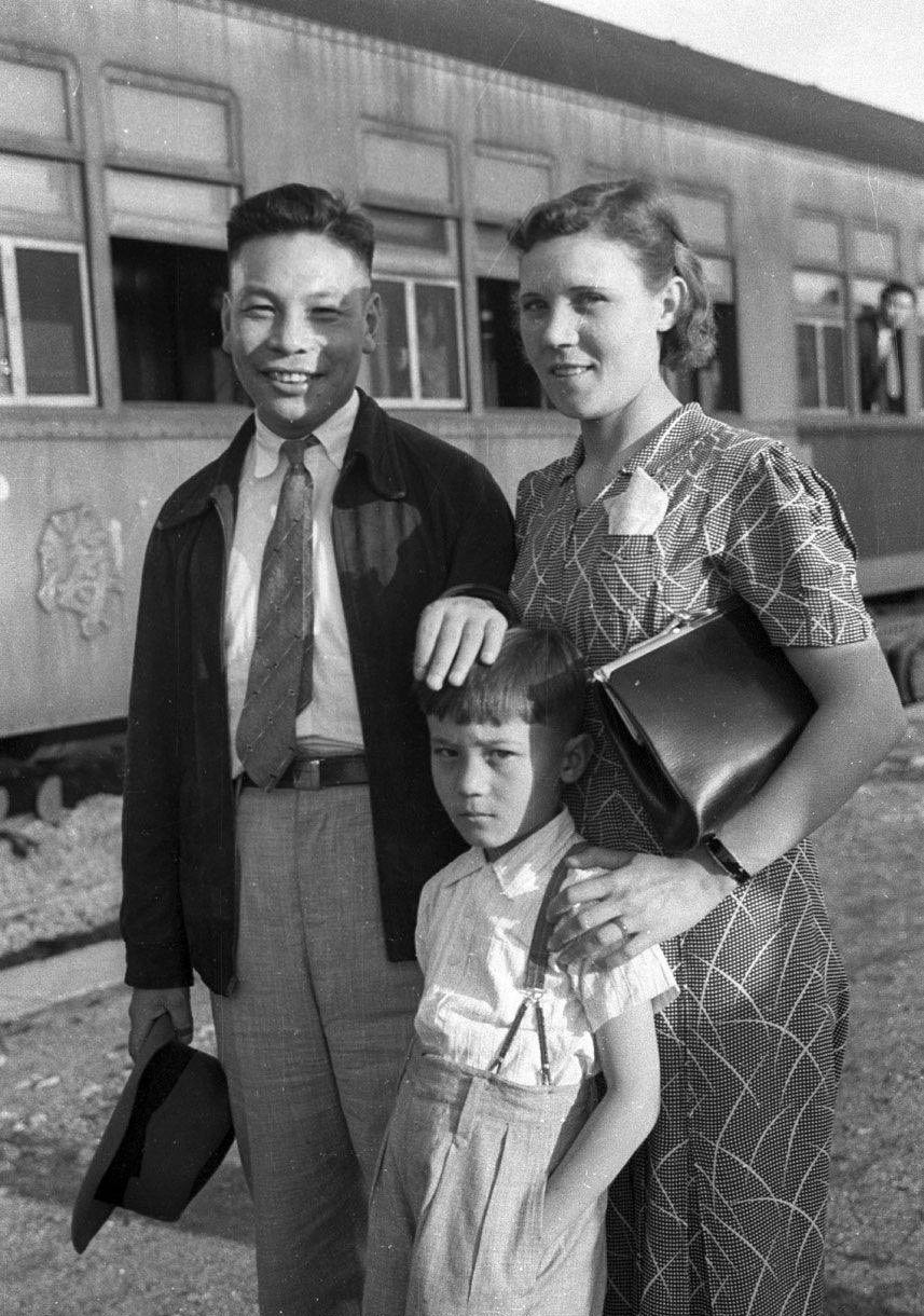 Chiang Ching-kuo and Belorussian wife Chiang Fang-liang in Gannan. Chiang Ching-kuo was appointed as commissioner of Gannan Prefecture (贛南) between 1939 and 1945.